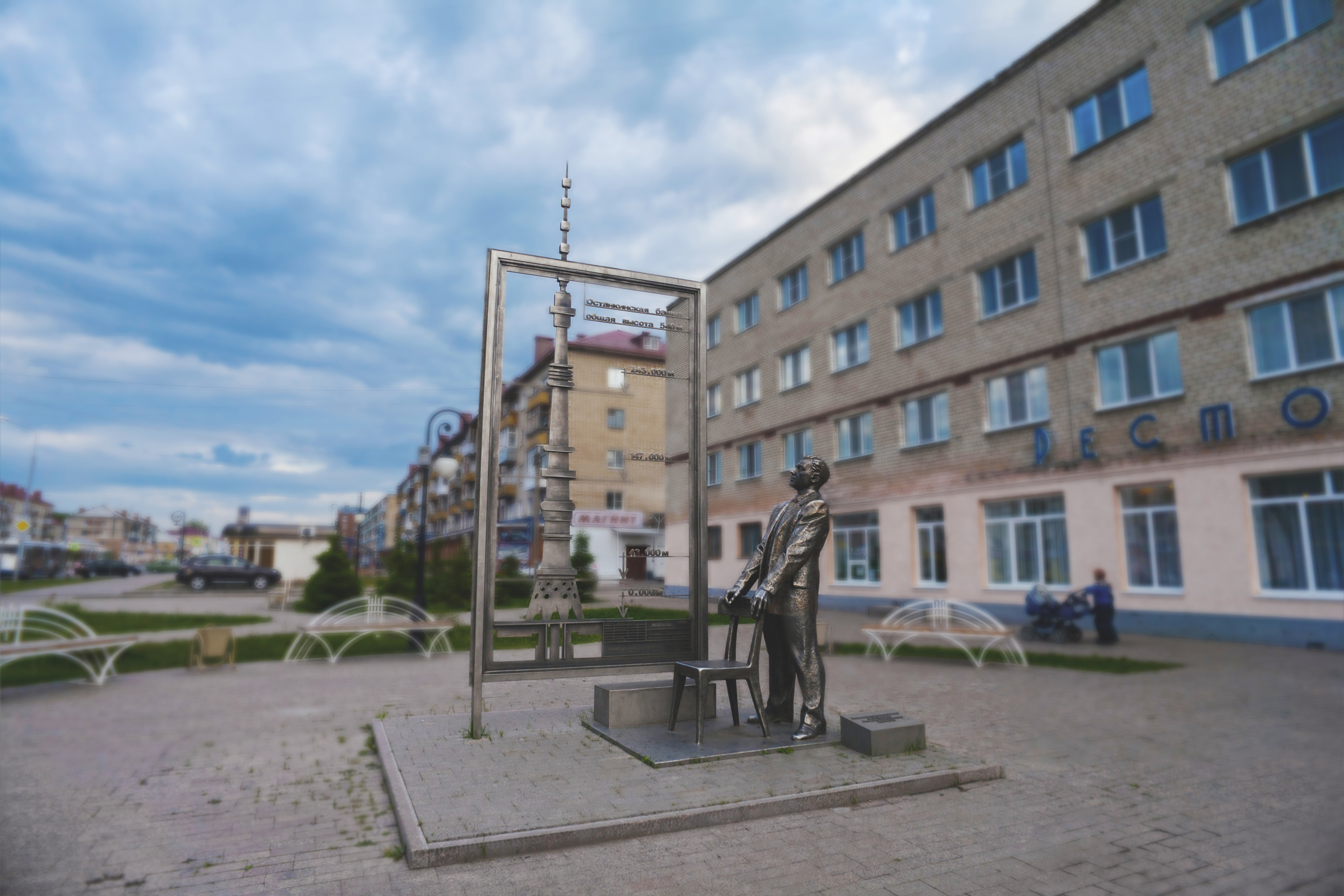 Monument to Soviet architect Nikolai Nikitin Ishim in the Tyumen region, where he spent seven years of his life.